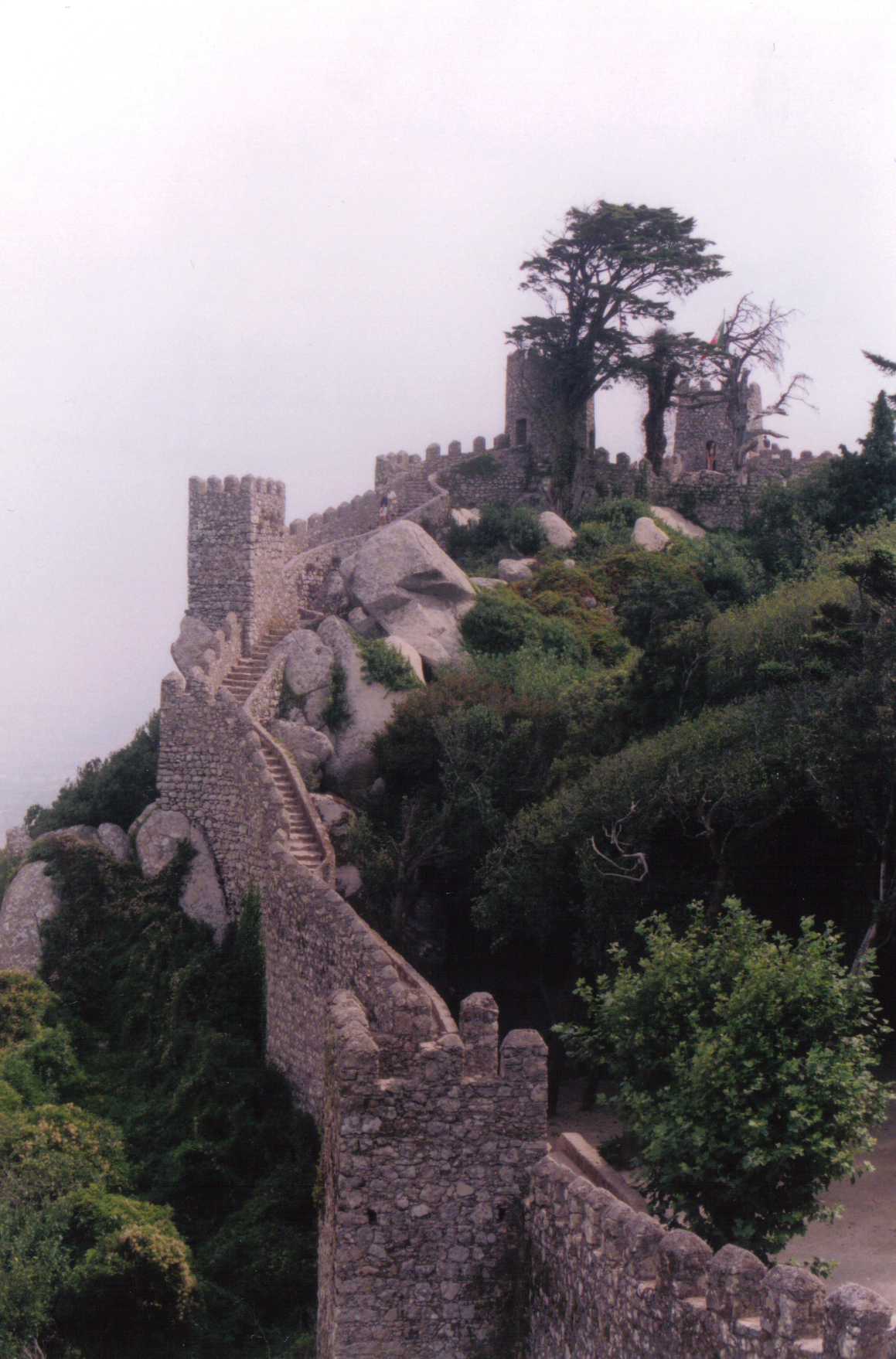 Castelo dos Mouros em Sintra: Muralhas e vista para a torre. Moorish Castle in Sintra: Walls and view to the tower. Autor, Author: Lusitana Data, Date: 2002